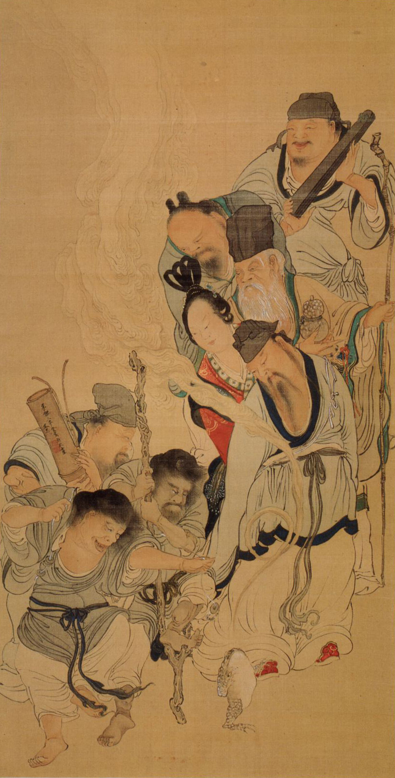 8 daoist immortals ;hanging scroll,colors on silk 八仙人図